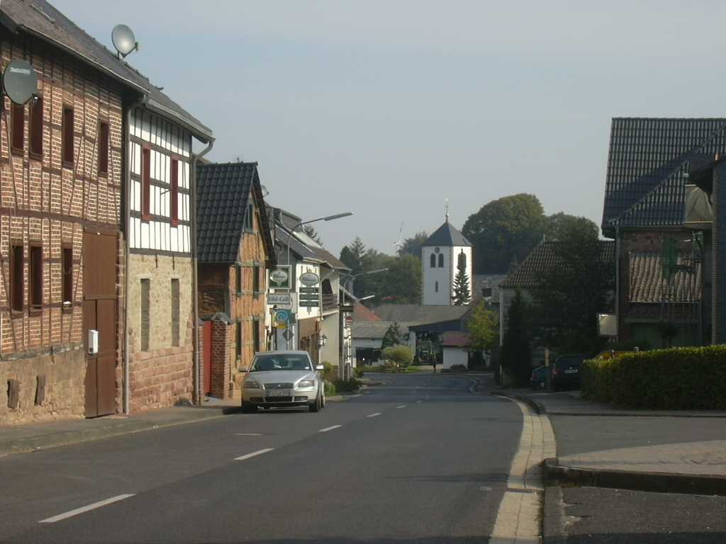 hergarten (Heimbach) own work papa1234 2006-09-16